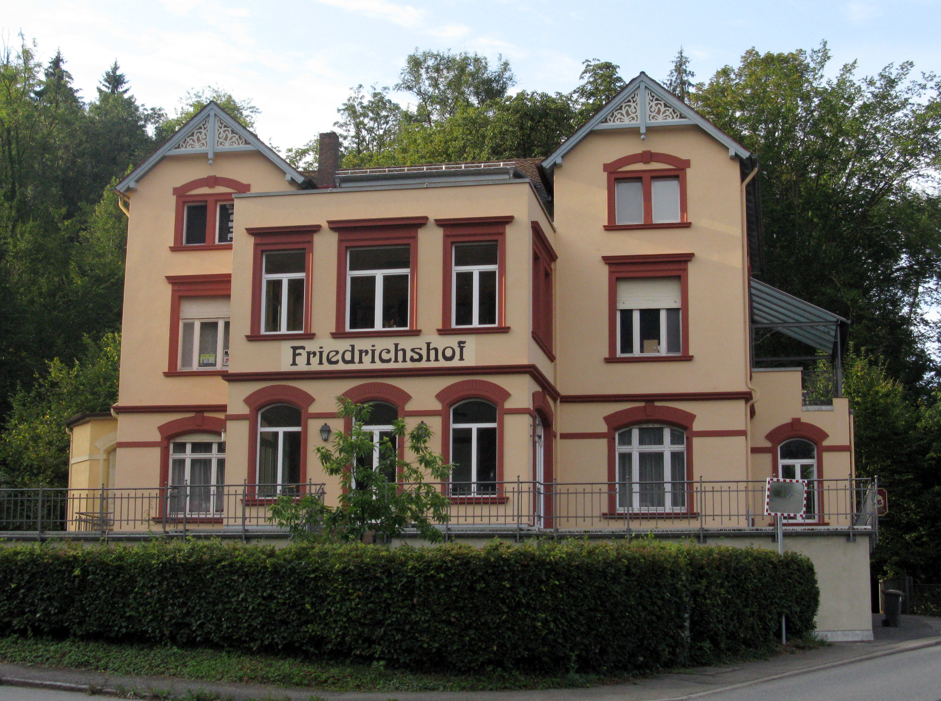 Friedrichshof in Horben, built by Karl Küchlin